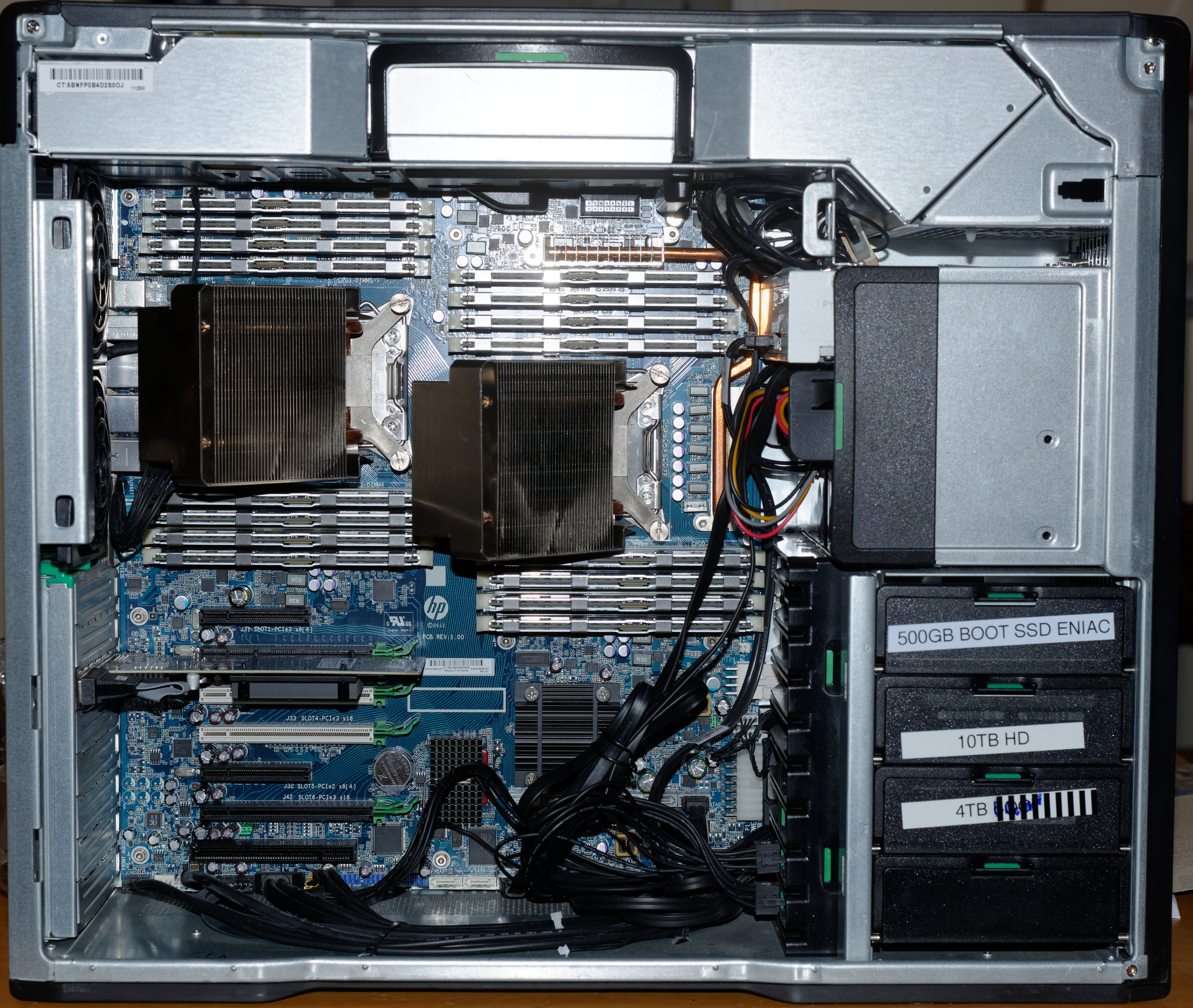 Inside an HP Z820 workstation - 1125-watt power supply (easily swappable), two Xeon processors, 16 RAM slots with up to 32GB in each (registered ECC), four 3.5" bays (easily swappable), three 5.25" bays, PCI slots for cards.